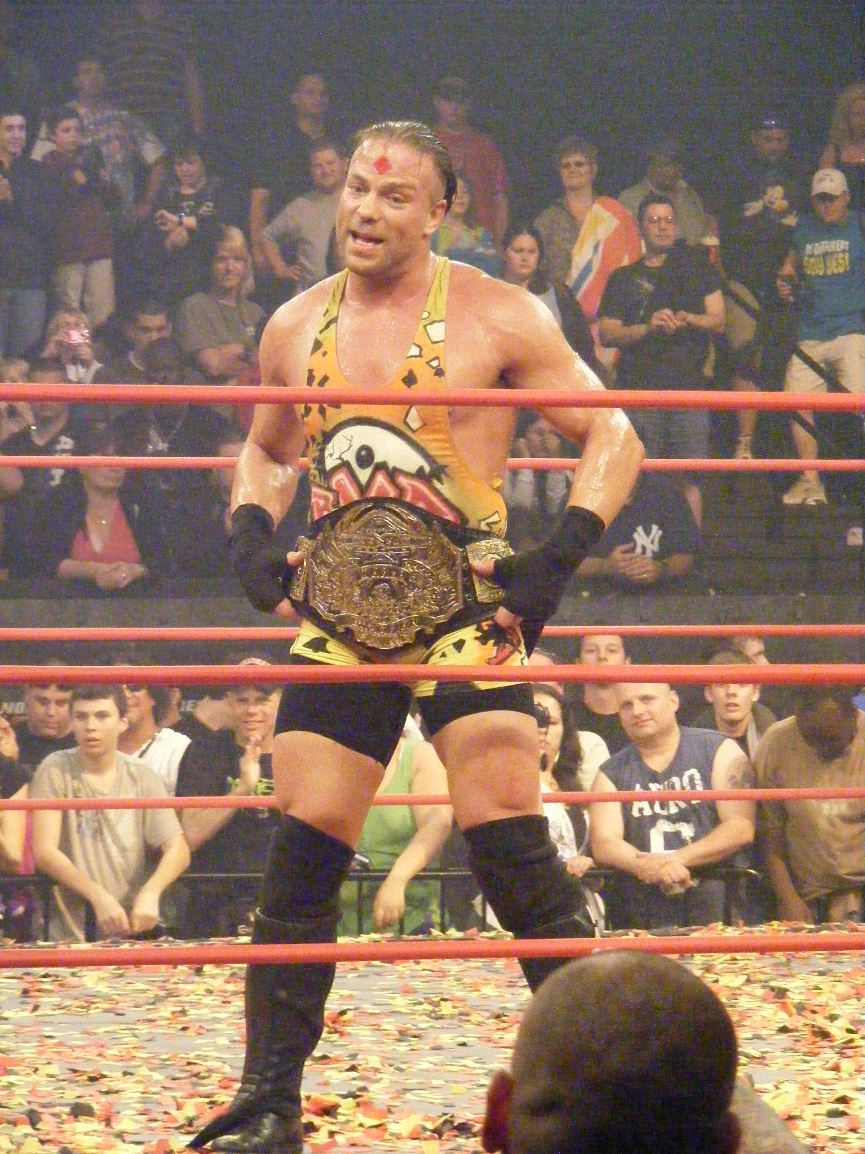 Rob Van Dam wins the TNA World Championship from AJ Styles during TNA Impact.